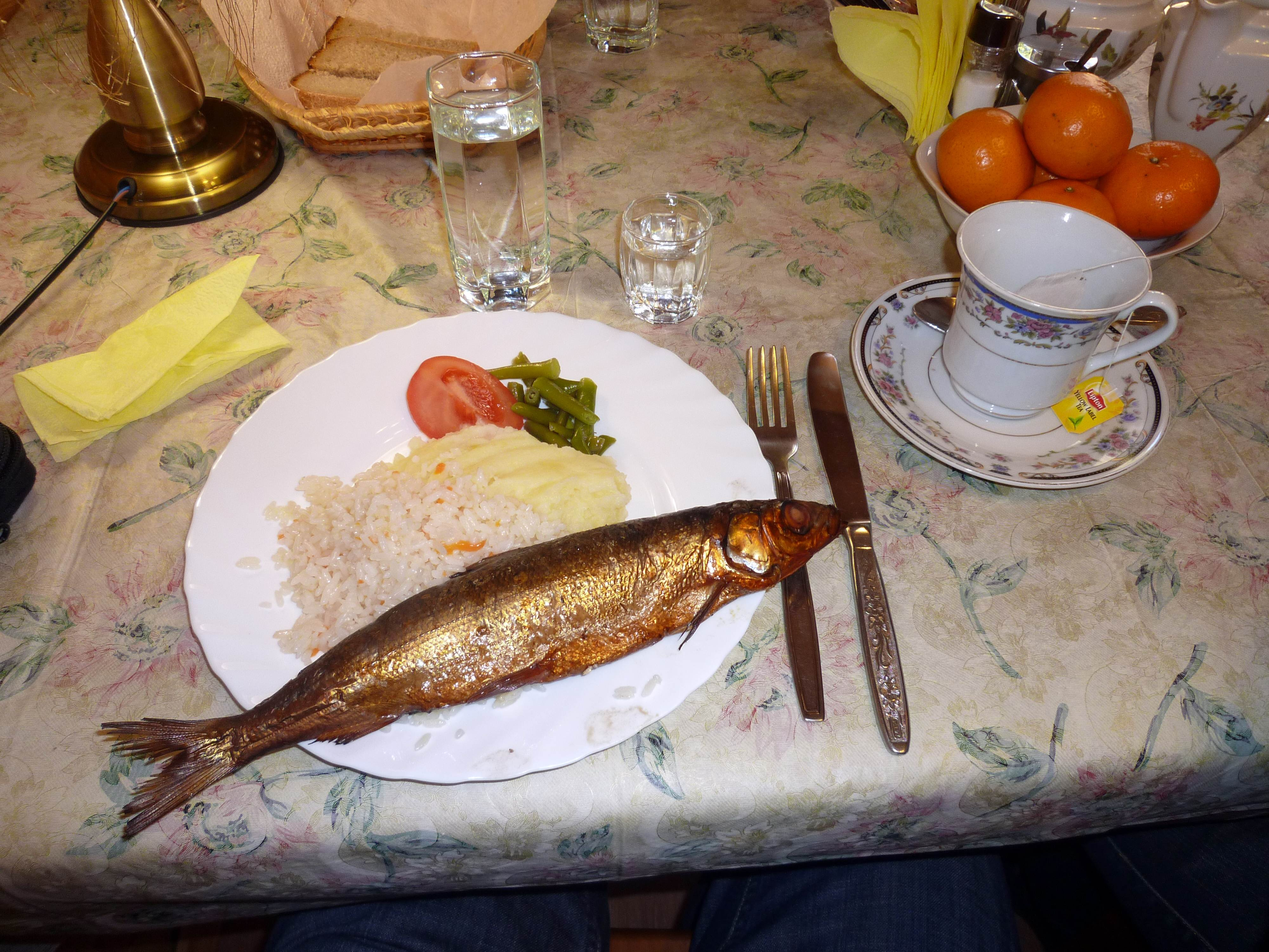 Cured Omul with sides served in a guesthouse at Baikal lake.